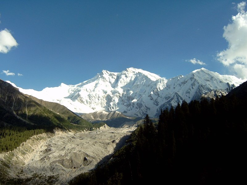 this image was taken on the way to fairy meadow...